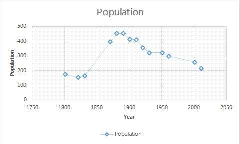 Total population of Satterthwaite Civil Parish, Cumbria, as reported by the Census of Population from 1801-2011